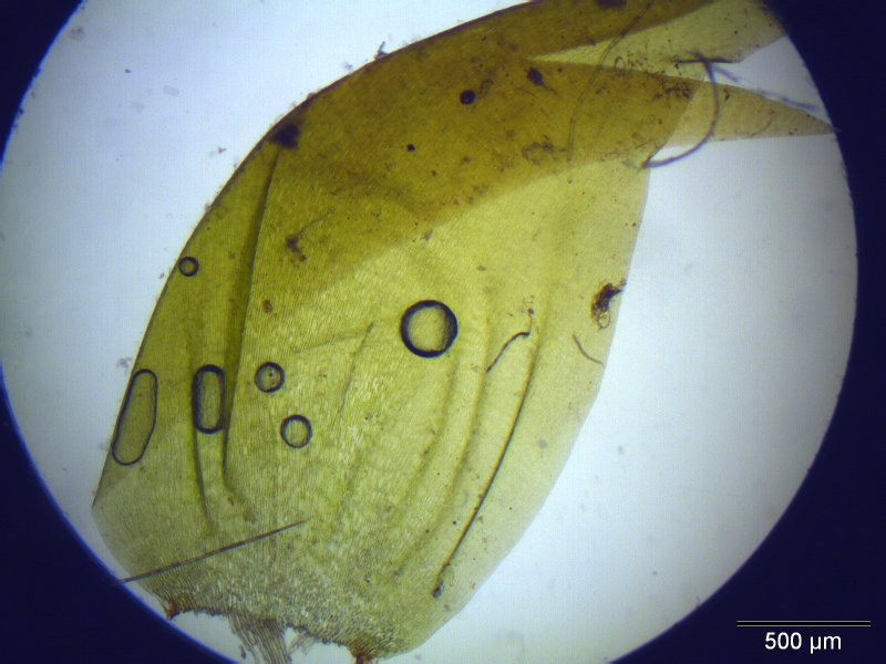 Echtes Skorpionsmoos (Scorpidium scorpioides), Blatt, 40x